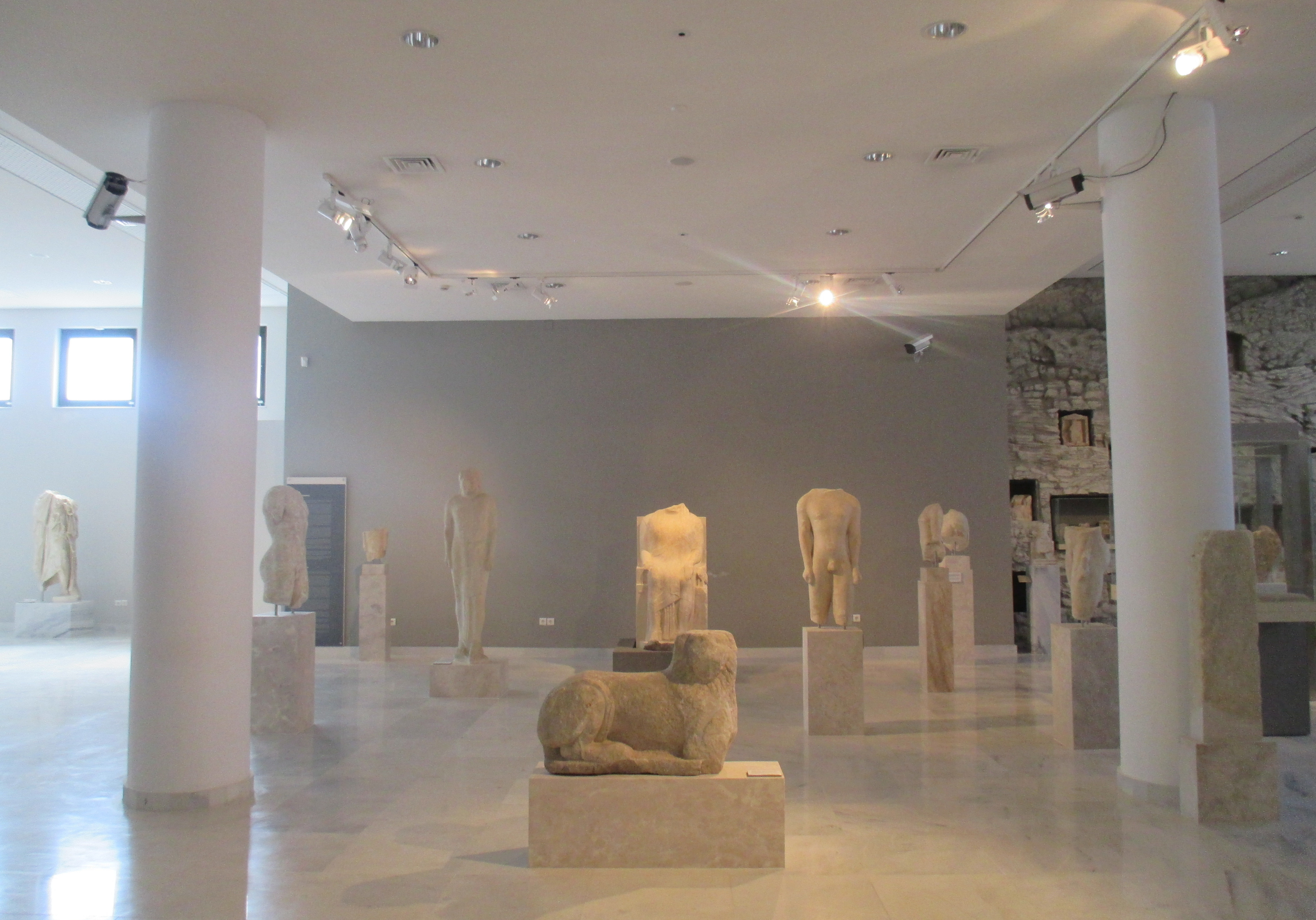 Statues. Archaeological Museum of Pythagoreio, Samos, Greece.